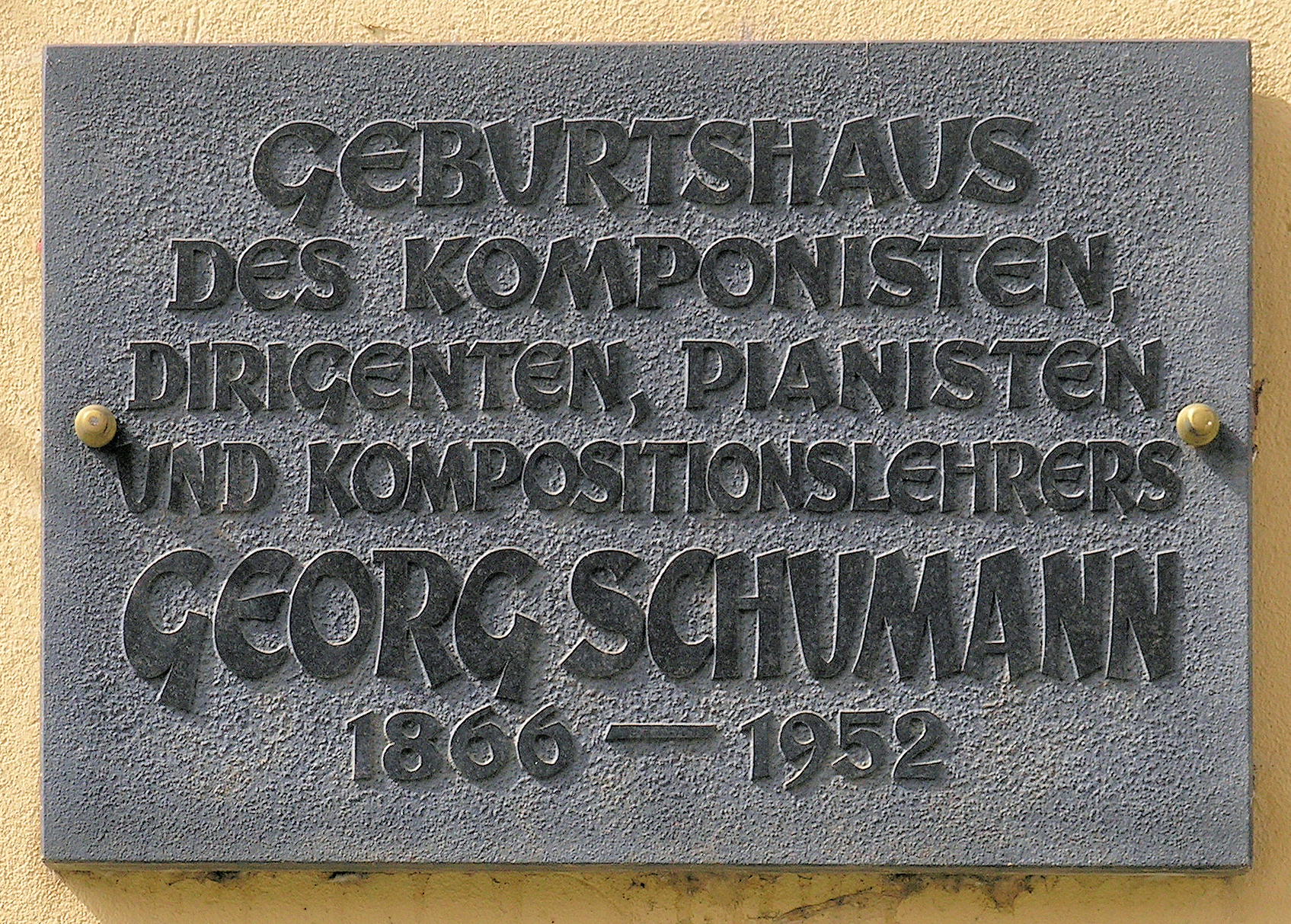 Memorial plaque, Georg Schumann, Goethestraße 10, Königstein (Sächsische Schweiz), Germany Koordinate:50°55′6″N 14°4′18″E / 50.91833°N 14.07167°E